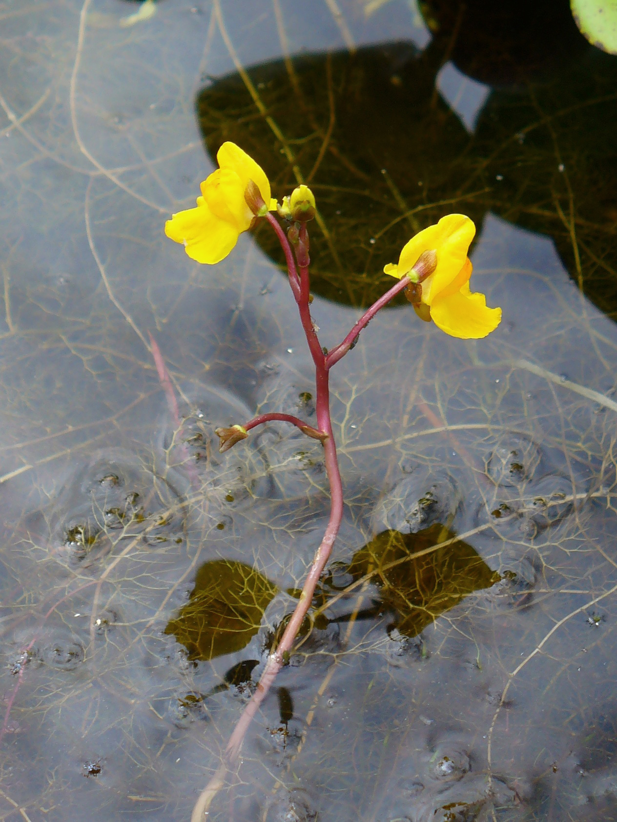 Utricularia vulgaris, Lentibulariaceae, Common Bladderwort, flowers.